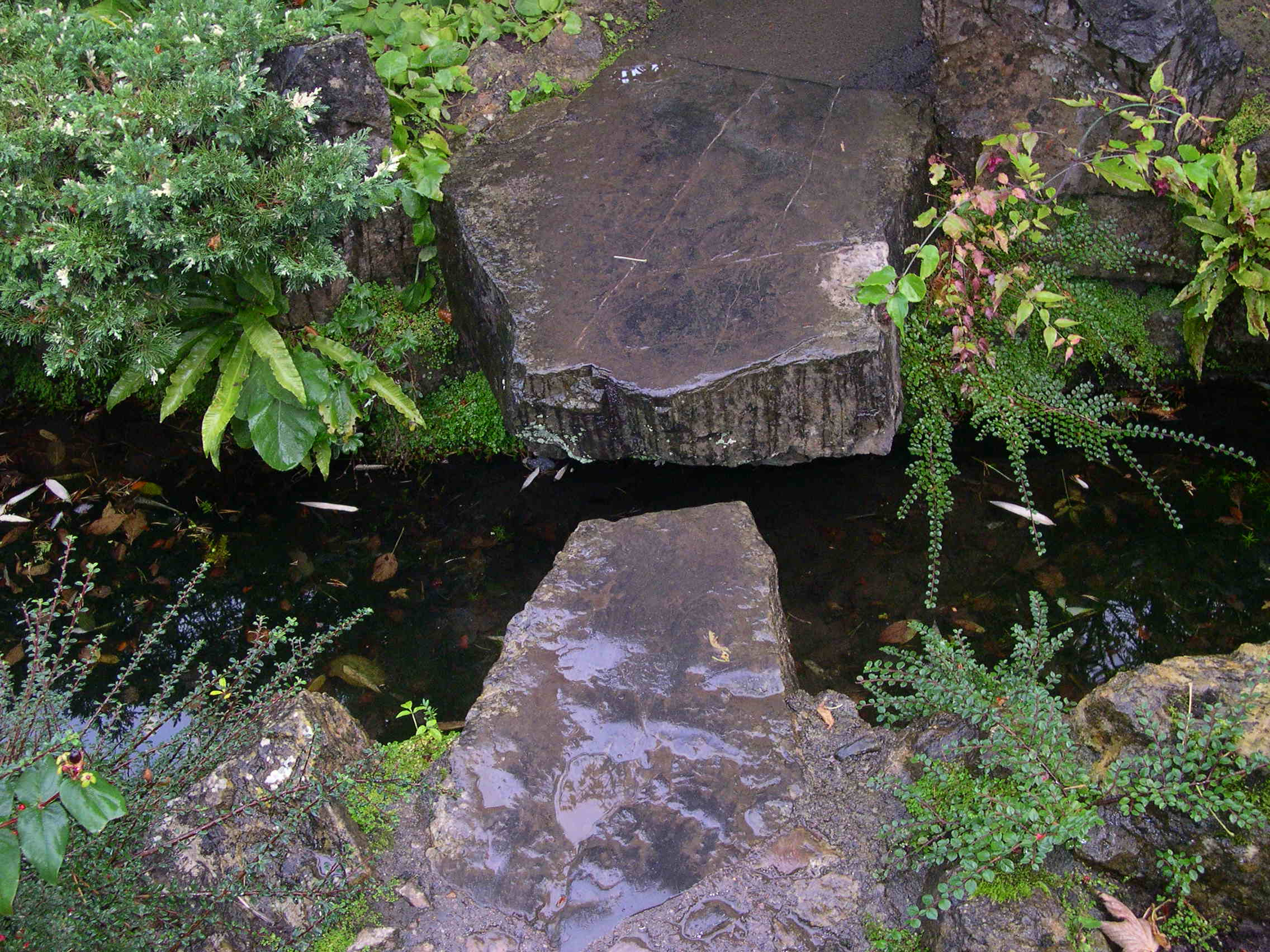 Stepping stones in Japanese Gardens, Tully, County Kildare, Republic of Ireland